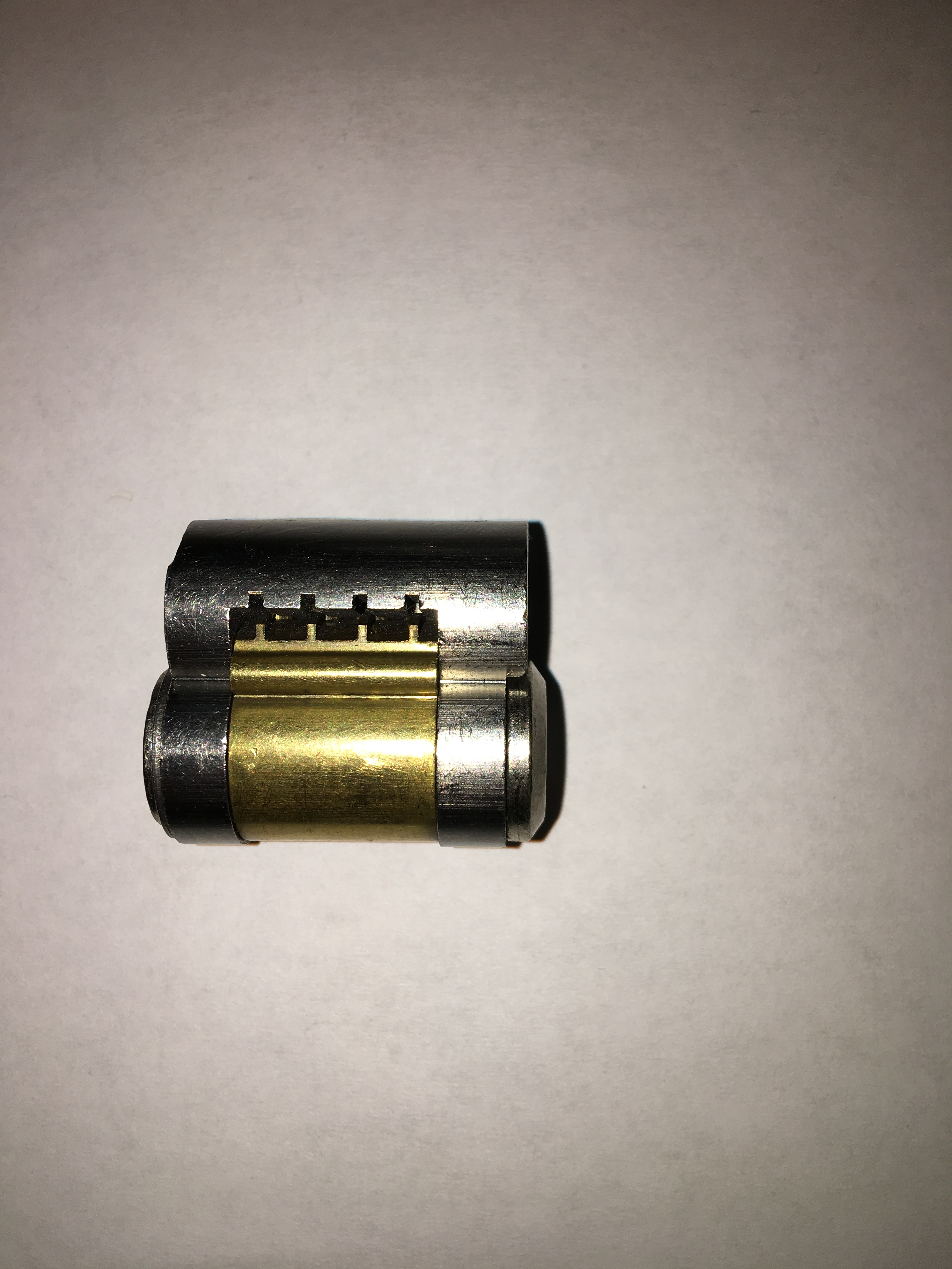 this core uses the center 4 pin chambers for the separate control shearline. pins 1 and 6 are not involved in the control shearline